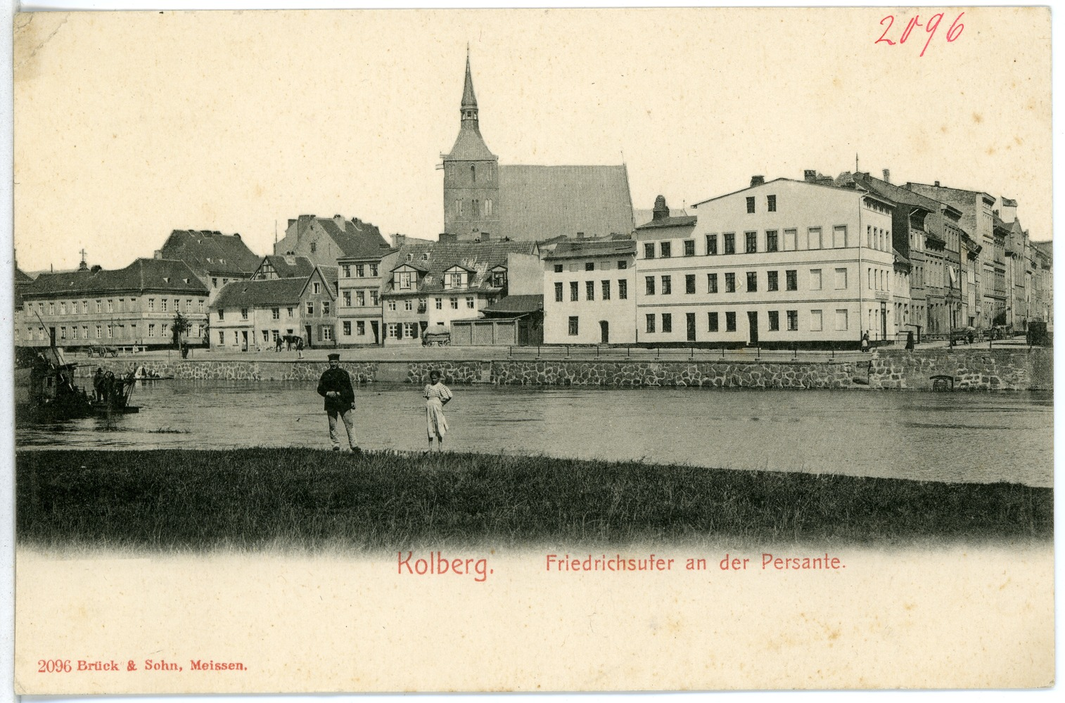 This postcard is from publisher Brück & Sohn in Meißen ( This postcard has a unique number 02096 and is available in a higher resolution at the publisher. This images was uploaded in a cooperation project between Wikipedians and the publisher.